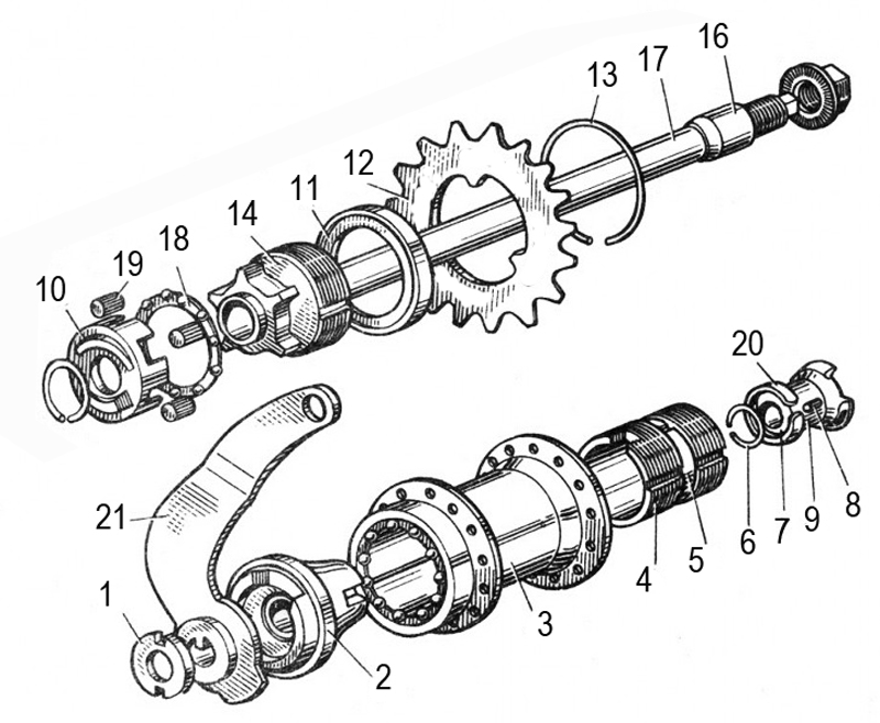 Torpedo back pedal brake